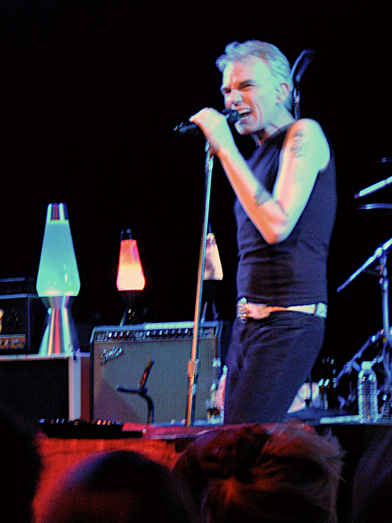 Billy Bob Thornton and the Boxmasters in concert at Slims in San Francisco, California, September, 2007.